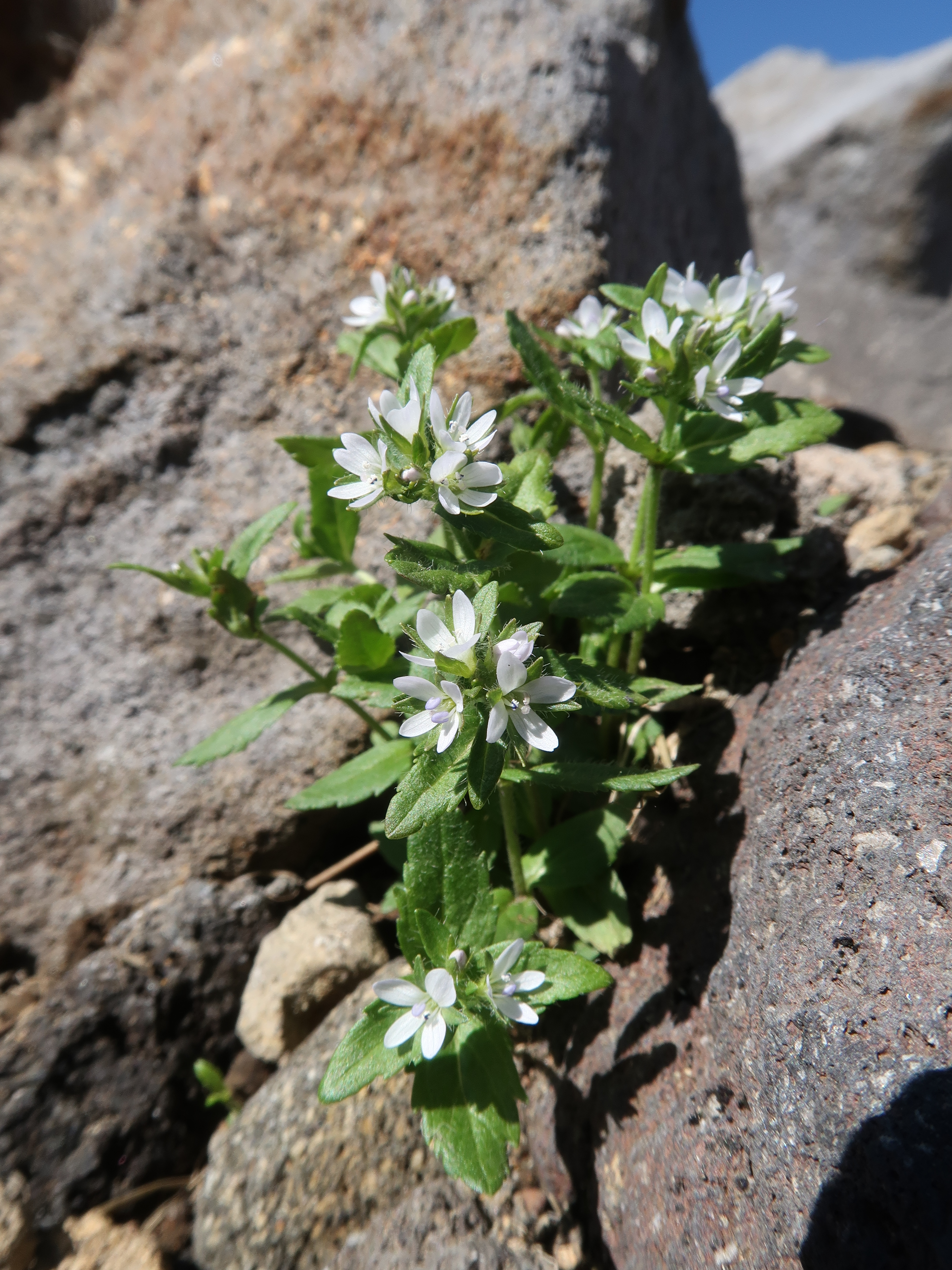 Veronica nipponica , Mount Chokai, Yamagata pref., Japan